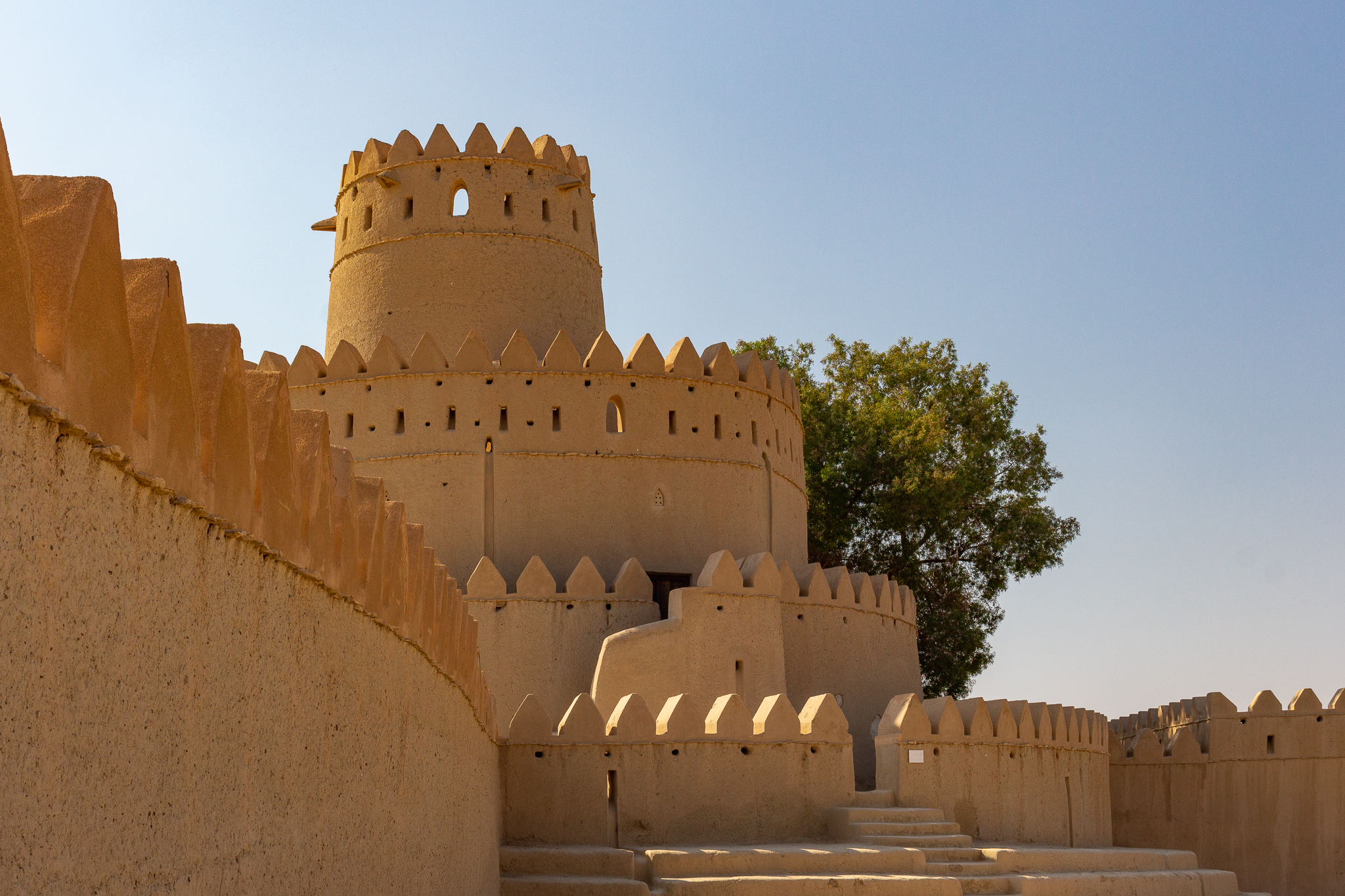 Al-Jahili Fort watch tower This is a monument in the United Arab Emirates identified by the ID AA-14